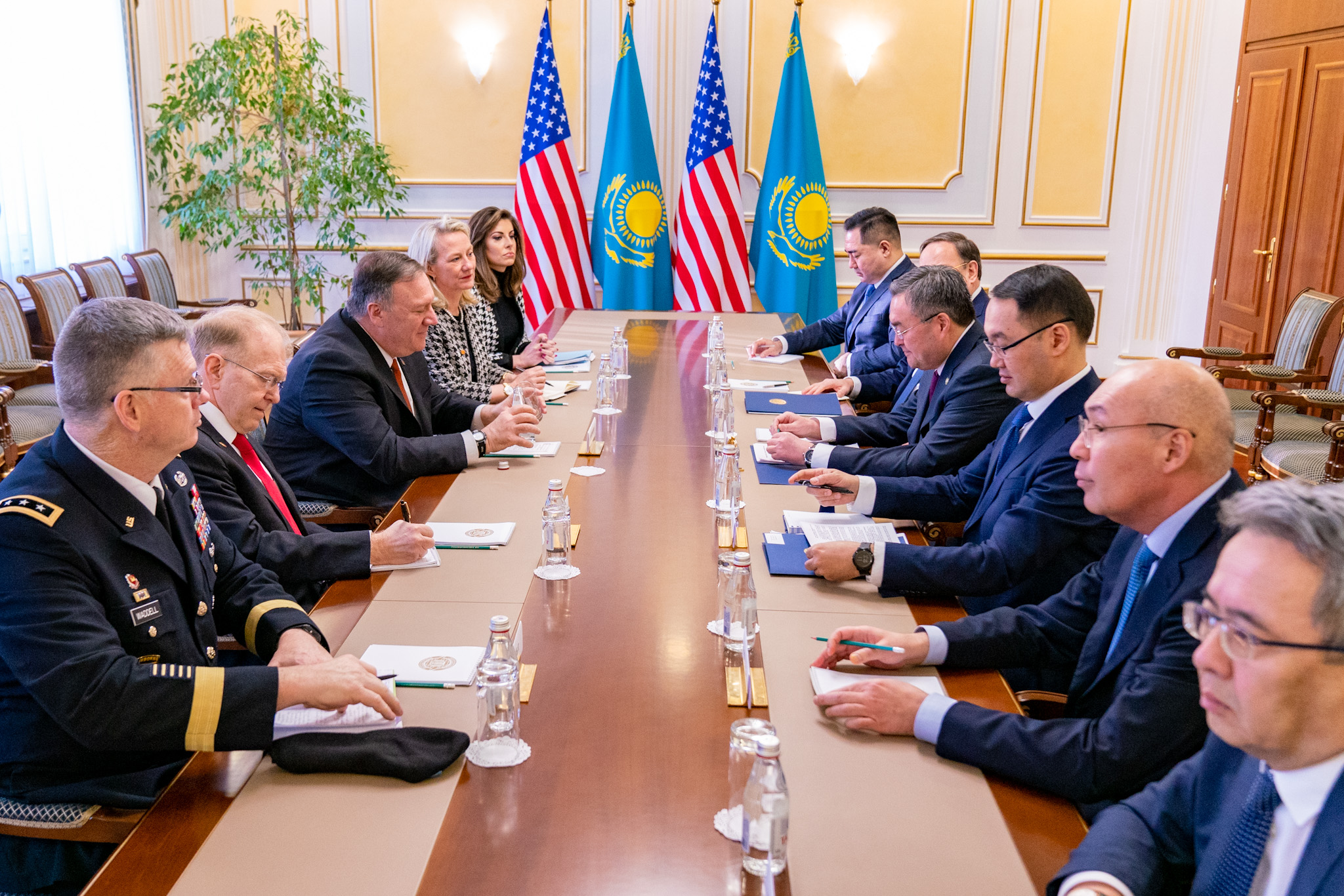 U.S. Secretary of State Michael R. Pompeo meets with Kazakhstan Foreign Minister Mukhtar Tileuberdi in Nur-Sultan, Kazakhstan, on February 2, 2020. [State Department Photo by Ron Przysucha/ Public Domain]